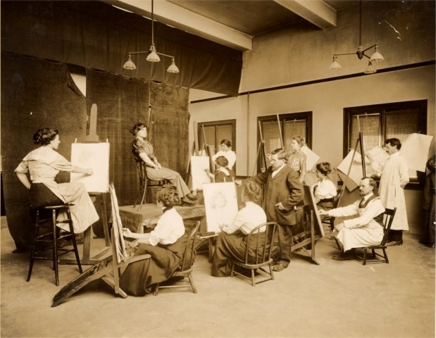 John Vanderpoel (centre) and his students